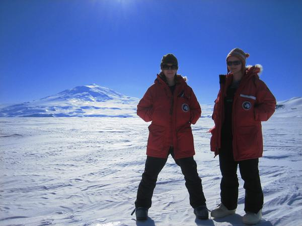 Kelly Jemison (left) with colleague Charlie King (right) pose at the base of Mt. Erebus, Antarctica.